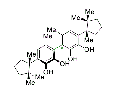 Isocyclic Biaryls